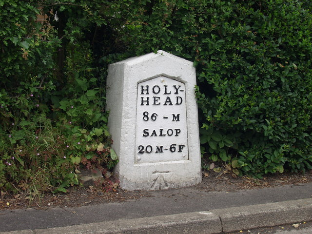 Milestone on the route of the old A5. This is the traditional milestone that are associated with "Telfords Turnpike". This is 86 miles to Holyhead, where the road met the Irish Ferry and 20.75 miles (there were 8 Furlongs to the mile, 1 Furlong is one "furrowlong" = to 220 yards approx 200 metres) to Salop (Shrewsbury) from the Anglo-French Sloppesberrie. "Salop" is the currently accepted abbreviation for Shropshire, the county whose administrative centre is Shrewsbury.